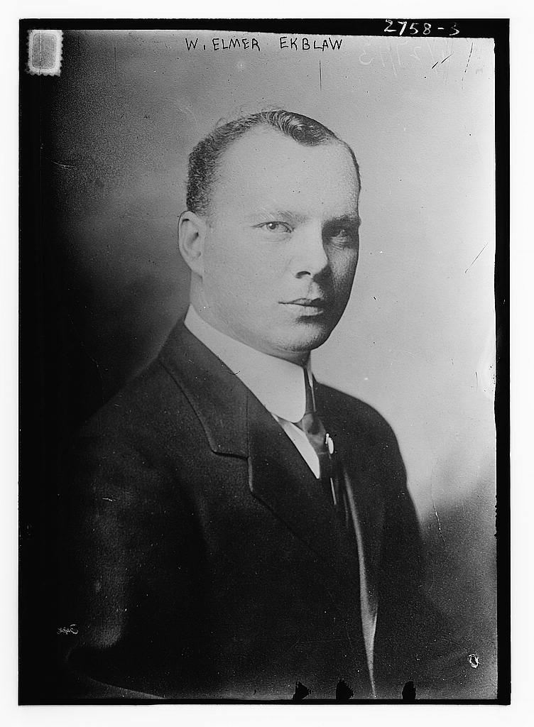 Bain News Service,, publisher. W. Elmer Ekblaw [no date recorded on caption card] 1 negative : glass ; 5 x 7 in. or smaller. Notes: Title from unverified data provided by the Bain News Service on the negatives or caption cards. Forms part of: George Grantham Bain Collection (Library of Congress). Format: Glass negatives. Repository: Library of Congress, Prints and Photographs Division, Washington, D.C. 20540 USA, General information about the Bain Collection is available at Persistent URL: Call Number: LC-B2- 2758-3